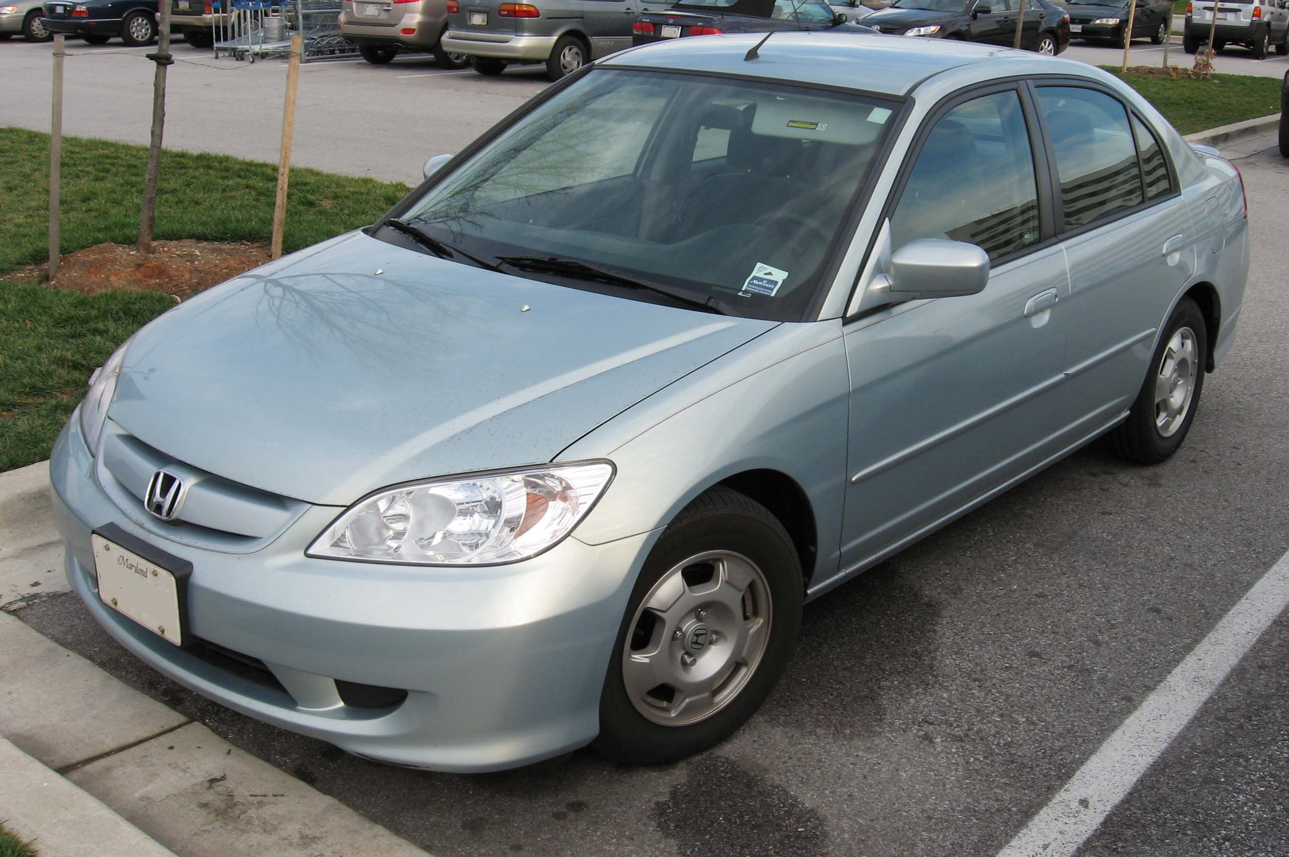 2004-2005 Honda Civic Hybrid photographed in USA.